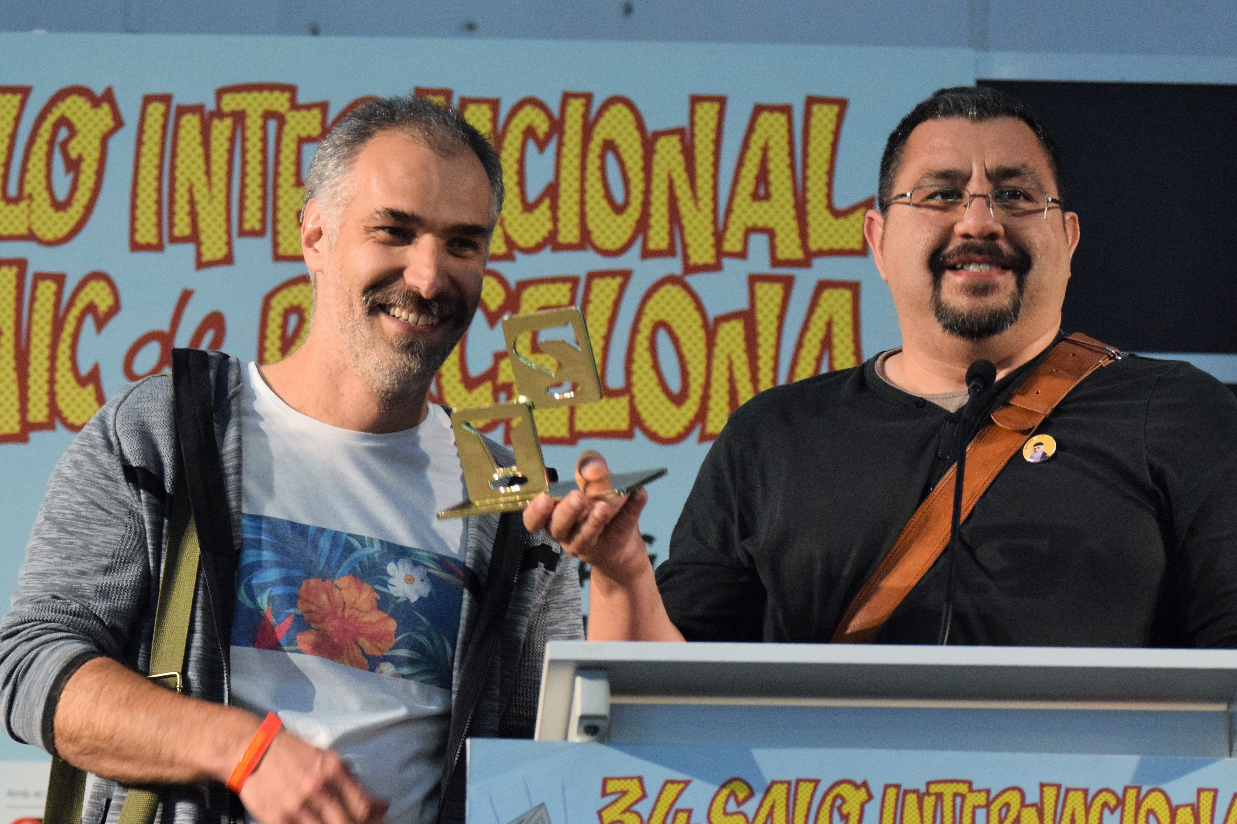 The scriptwriter El Torres and the cartoonist Jesús Alonso Iglesias during the award ceremony of the Barcelona International Comic Convention of 2016. Both authors were awarded with the Prize to the best Comic for El fantasma de Gaudí.